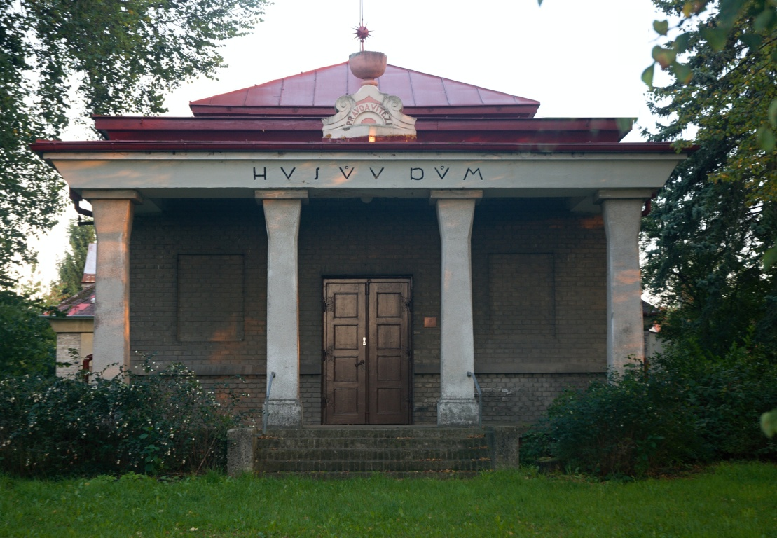 This photograph was taken during the Architecture photographic workshop, Prague, 2014.